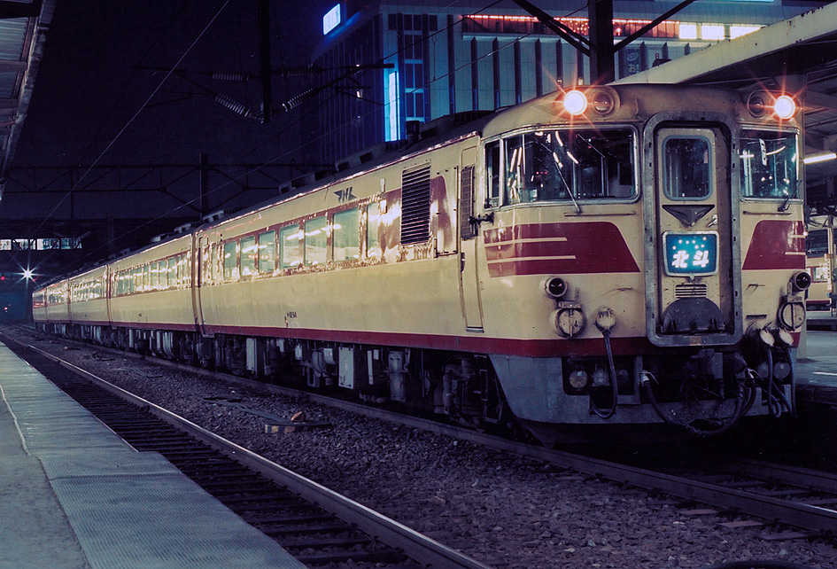 JNR Kiha 80 series DMU for the Limited Express Hokuto at Sapporo Station